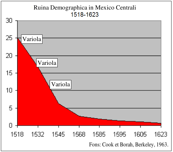 change in population; file from Spanish Wiki